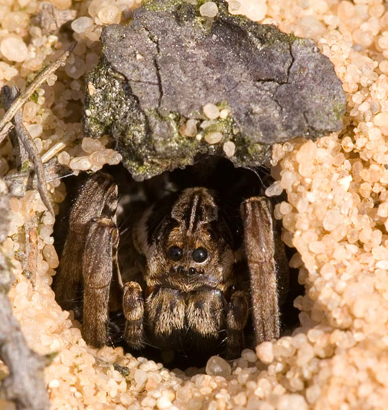 Alopecosa fabrilis, adult female in burrow